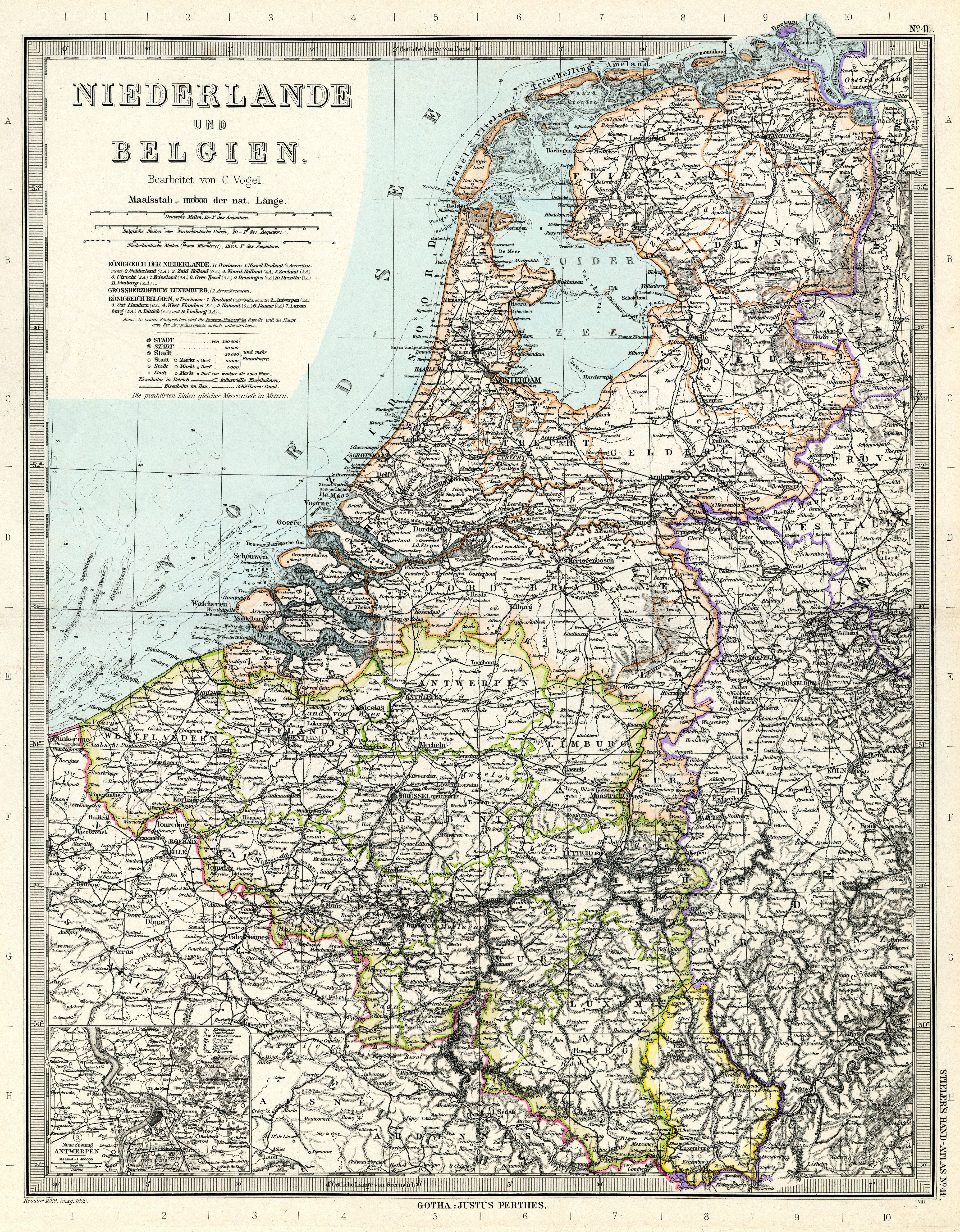 The Netherlands and Belgium